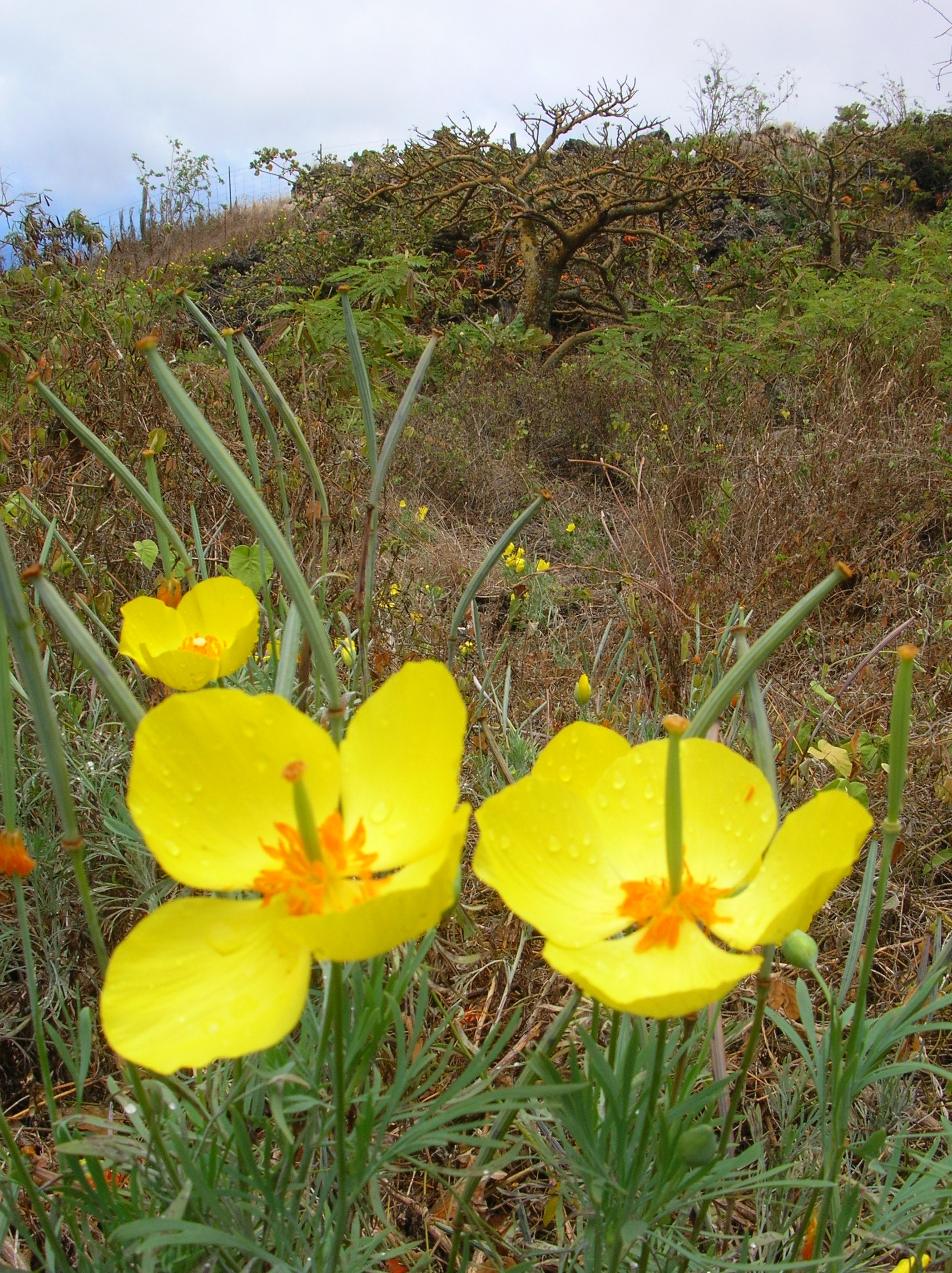 Hunnemannia fumariifolia (flowers and pods). Location: Maui, Kanaio